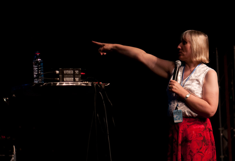 Sophie Wilson is one of the pioneers of modern microcomputing and the creator of the original ARM RISC processor.